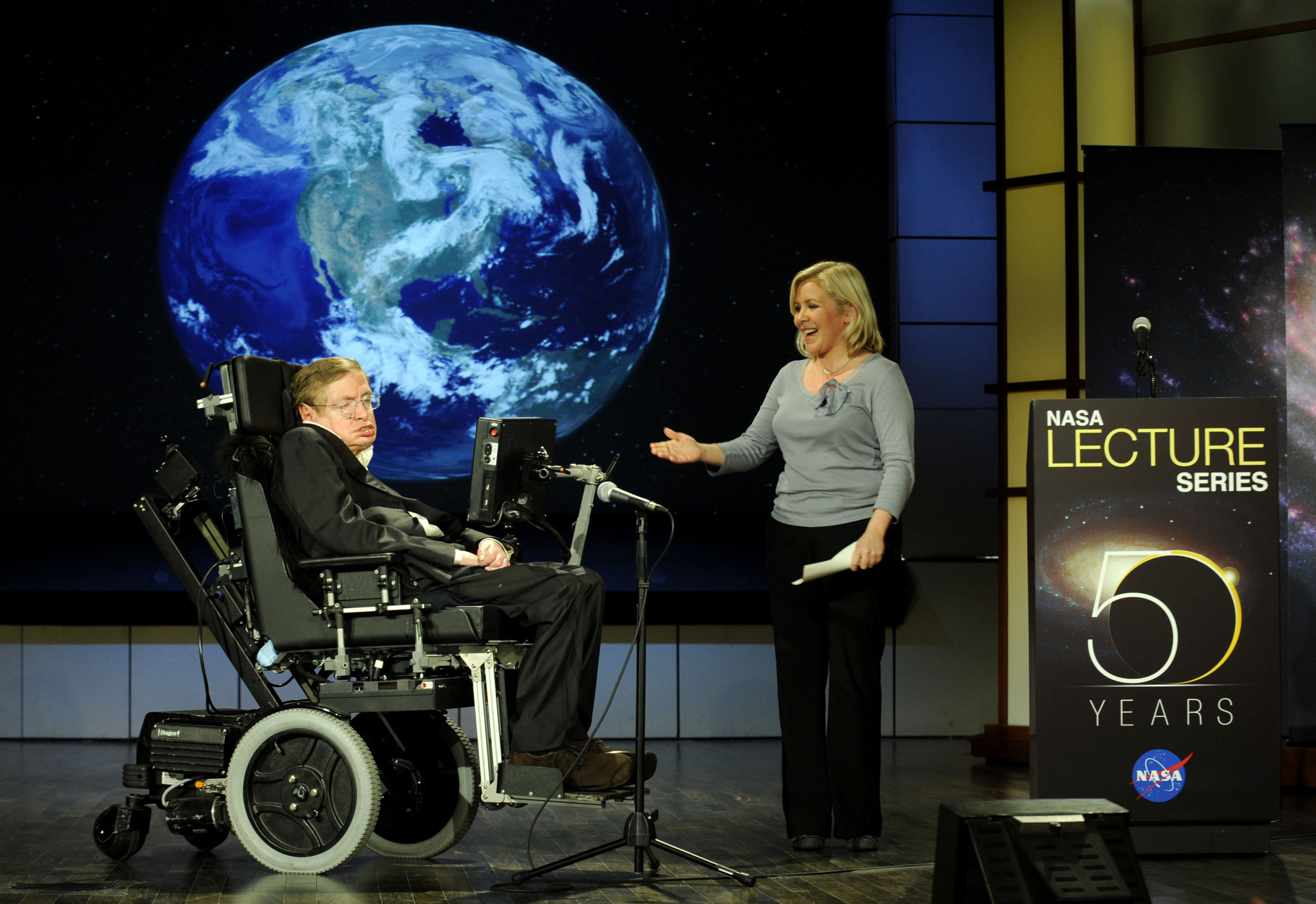 Stephen Hawking being presented by his daughter Lucy Hawking at the lecture he gave for NASA's 50th anniversary